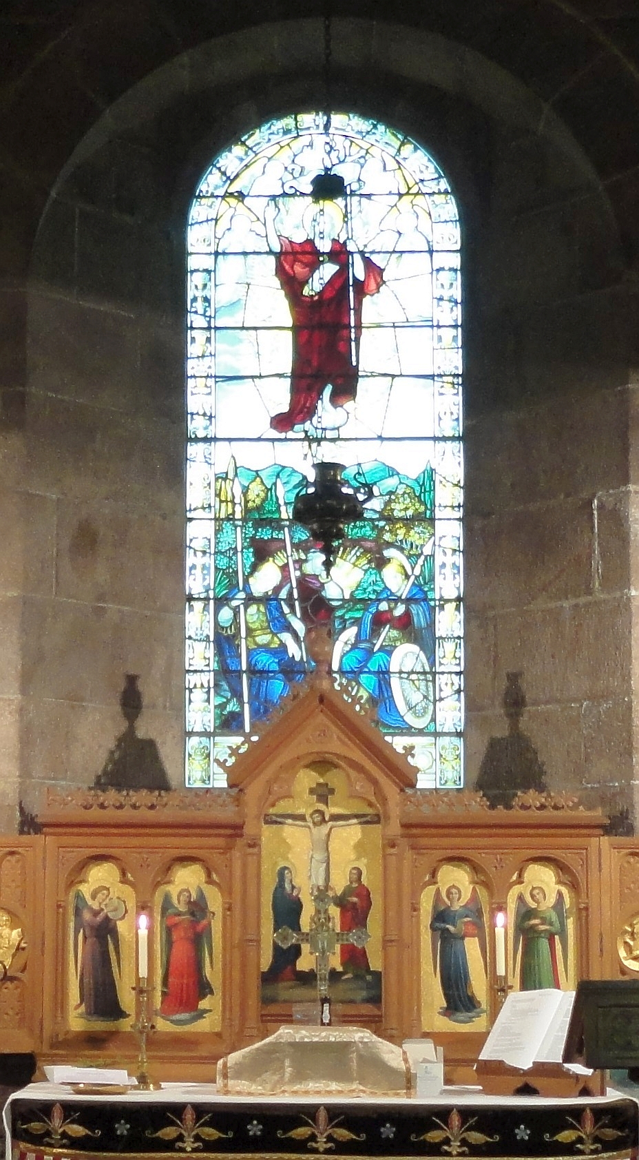 Braemar, Mar Lodge Estate, St Ninian's Chapel - interior: stained glass window